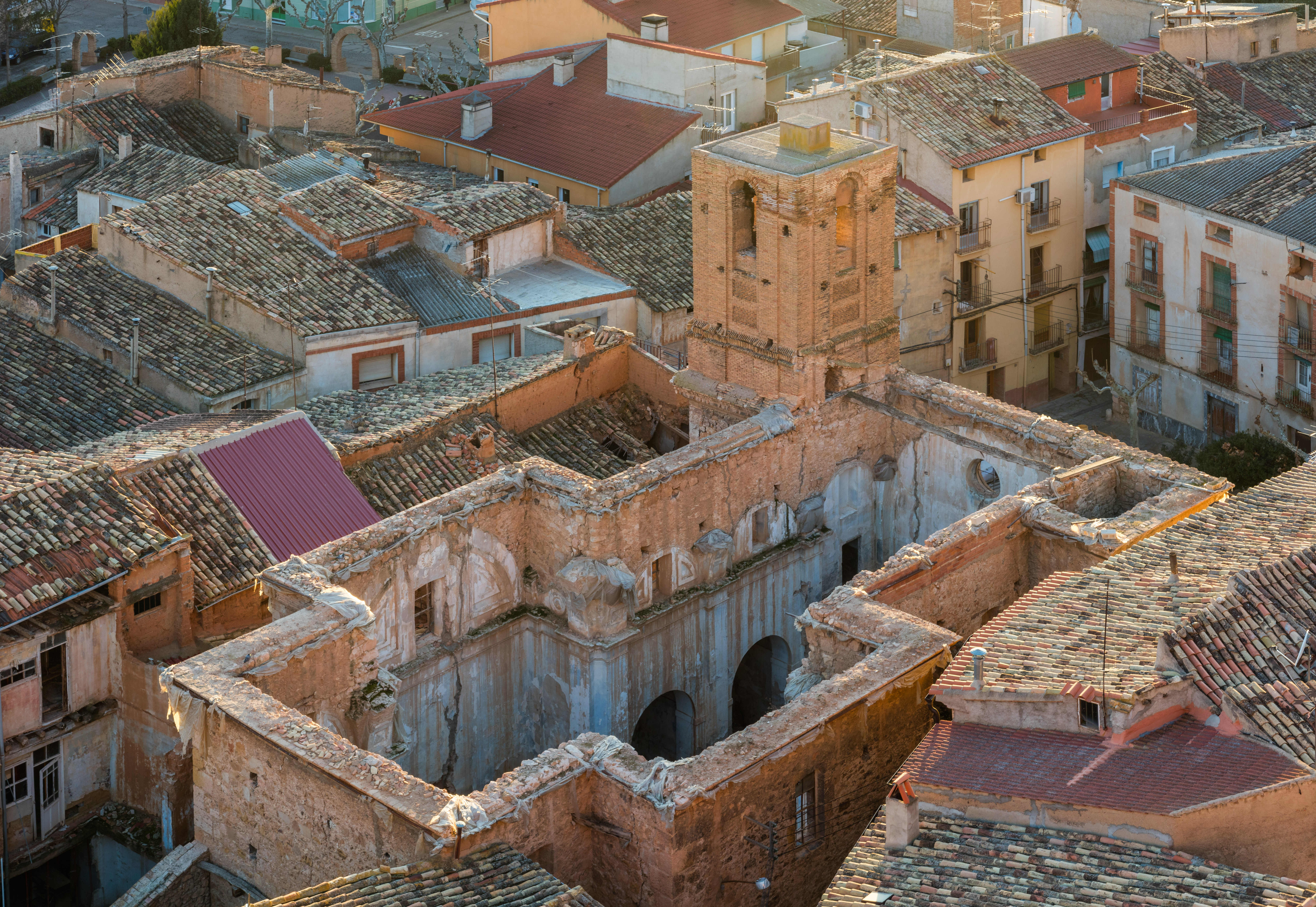 Superior view of the roofless church of St Peter, patron saint of Ariza, located in Aragón (Spain) were it is situated. The temple is of Herrerian style and was built in 1620.